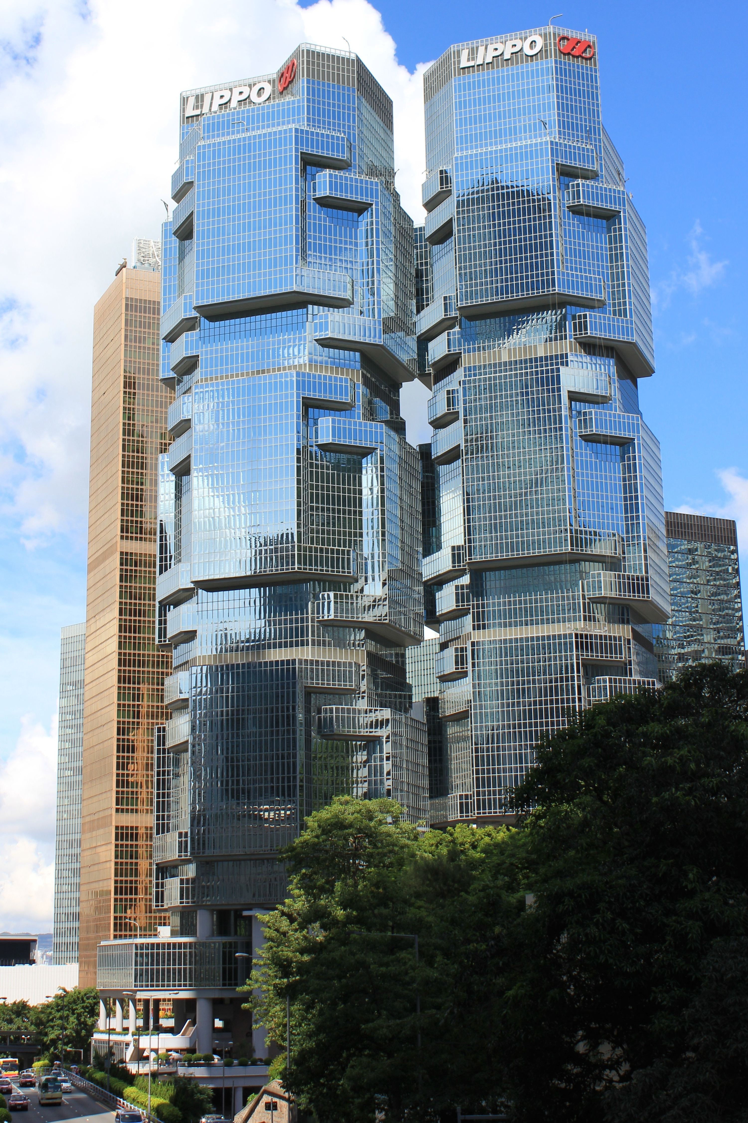 Lippo centre, Hong Kong as viewed from Hong Kong Park